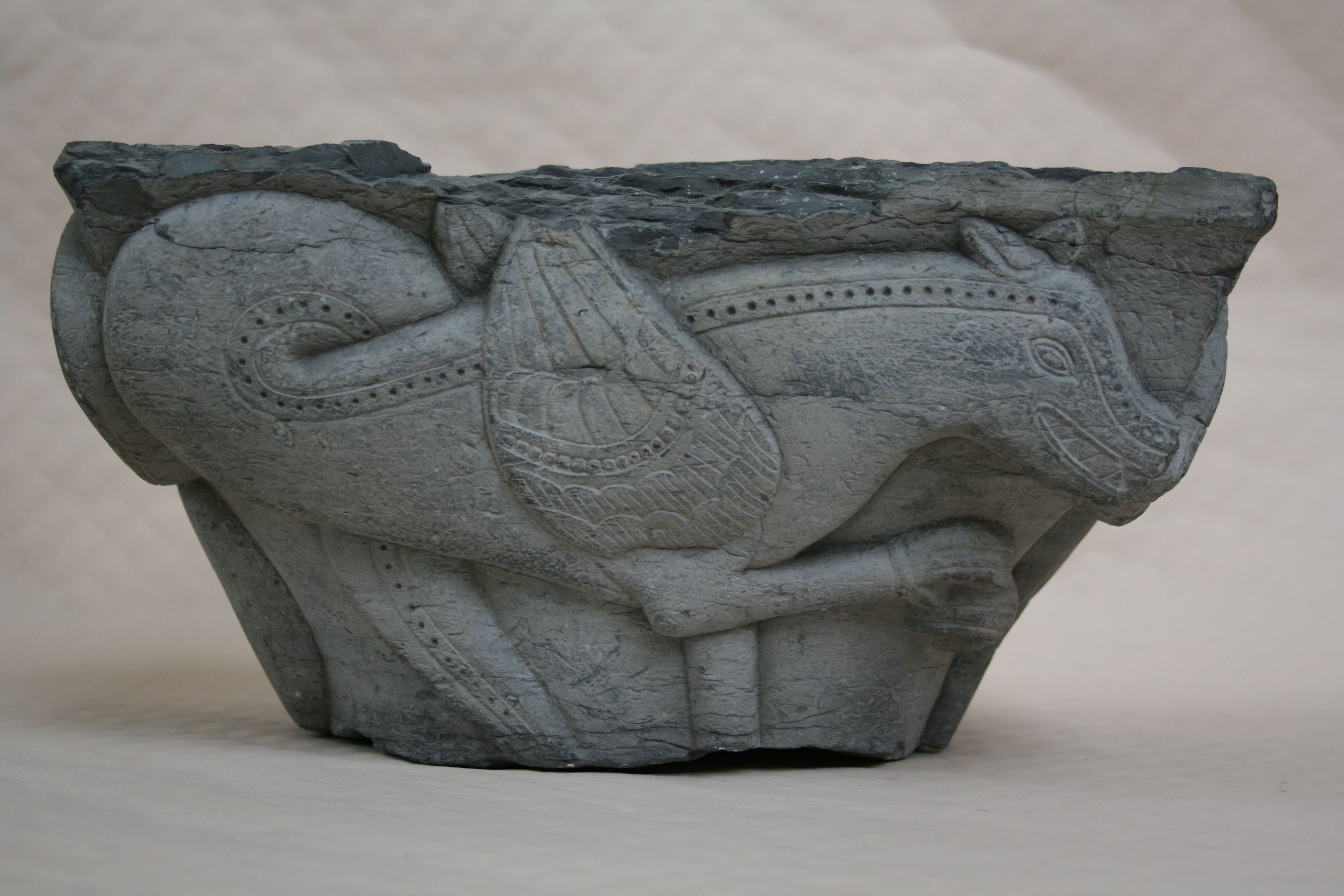 Chapiteau roman provenant de l'abbaye de Saint-Amand-les Eaux